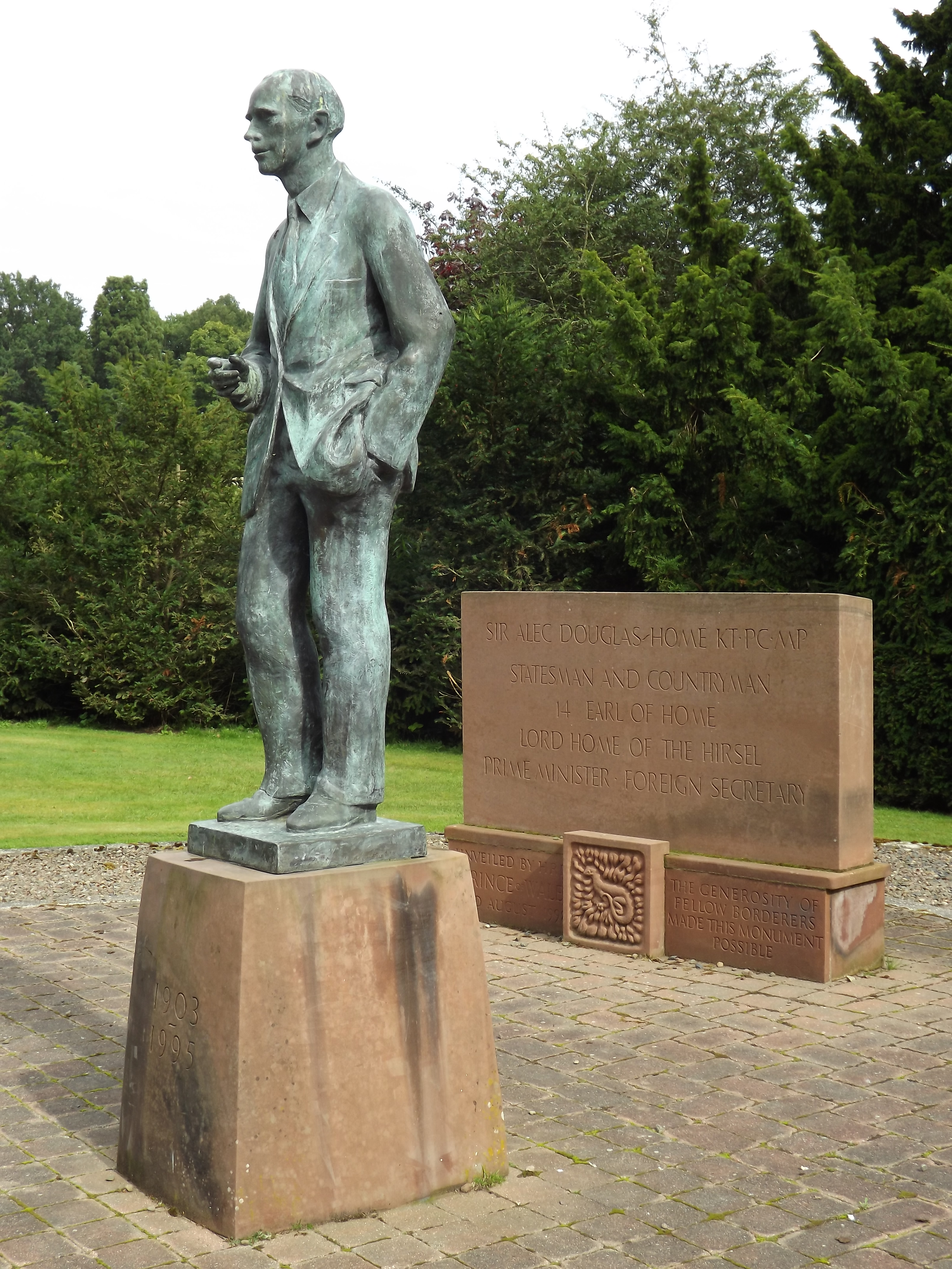 Sir Alec Douglas-Home. See Sir Alec Douglas-Home Memorial.